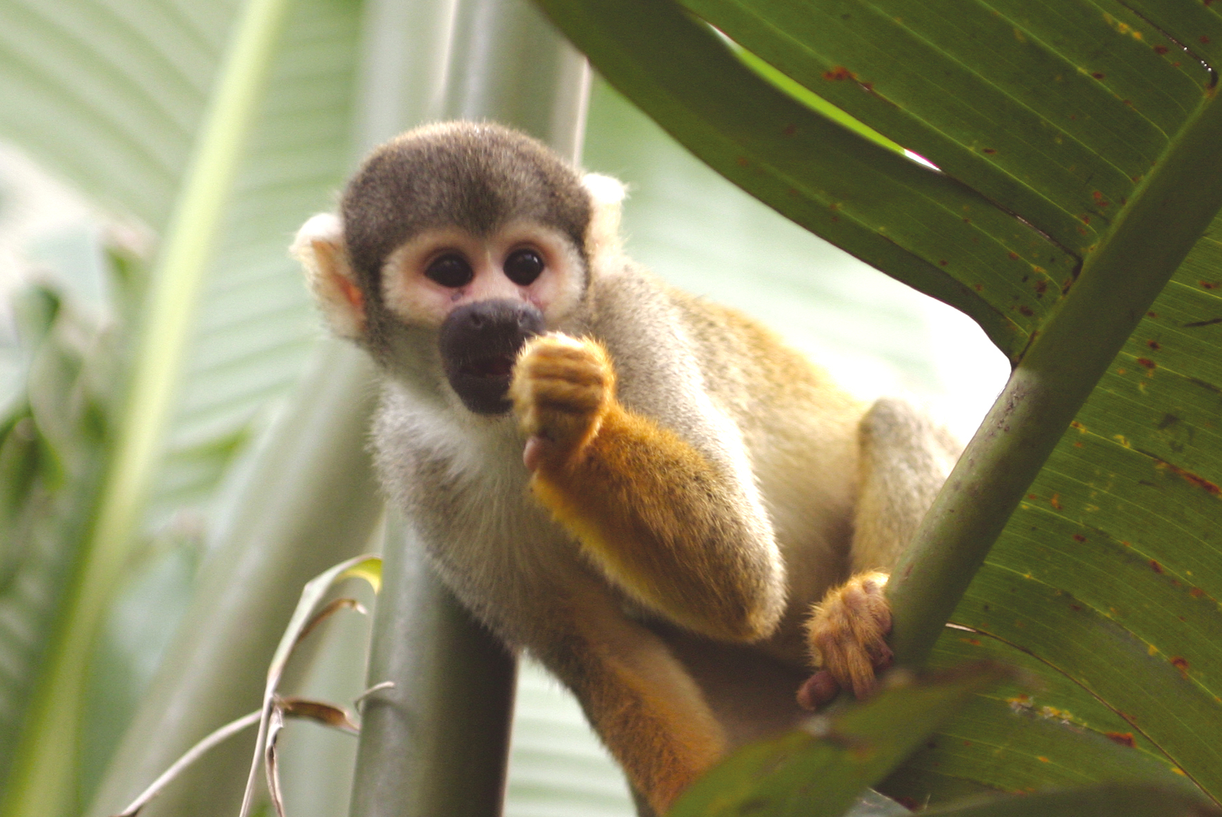 Mono Saimiri. Faunia, Madrid.